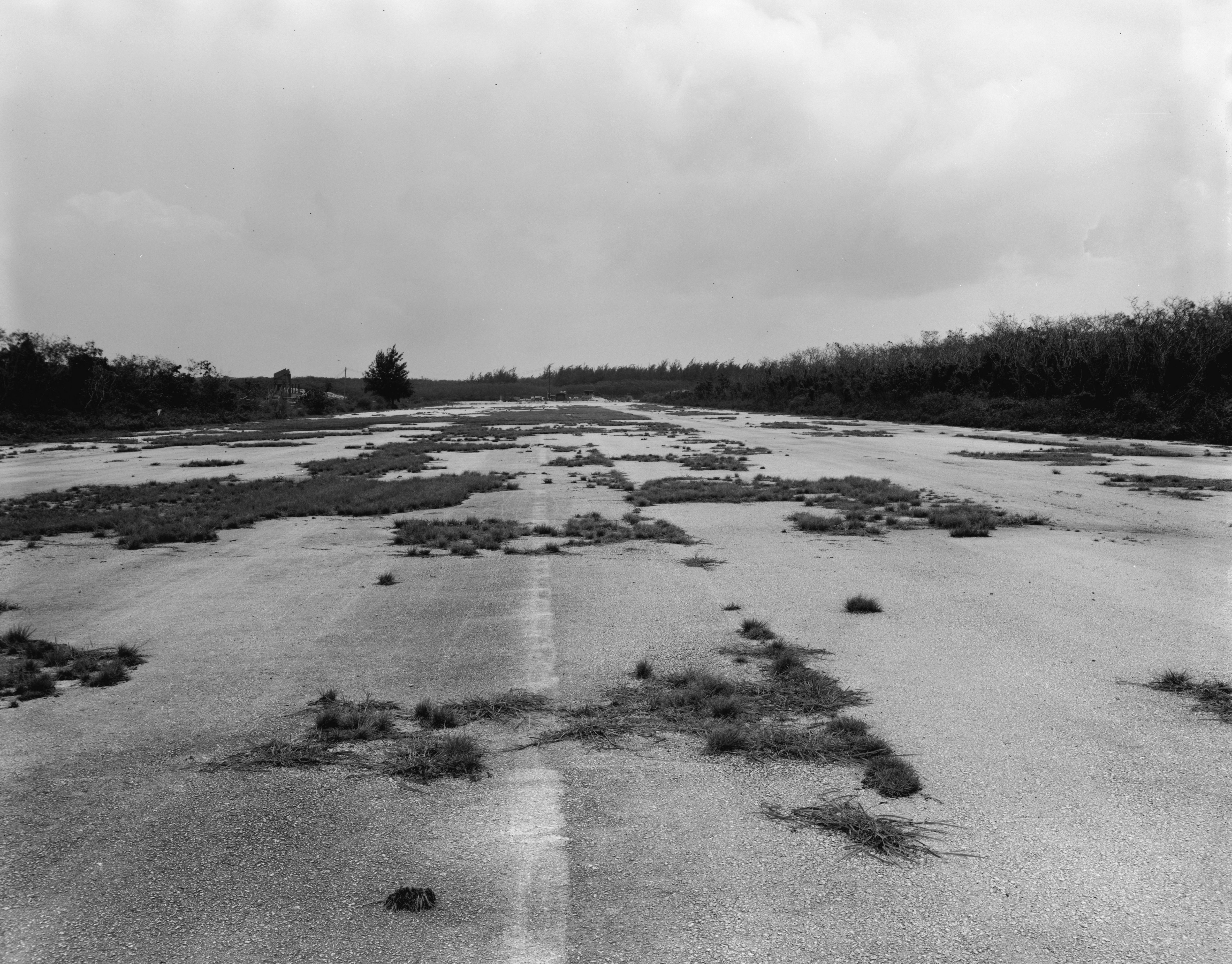 Orote Point Airfield, Apra Harbor Naval Reservation, Orote Point (Guam County, Guam) VIEW SHOWING CENTER OF RUNWAY, LOOKING WEST